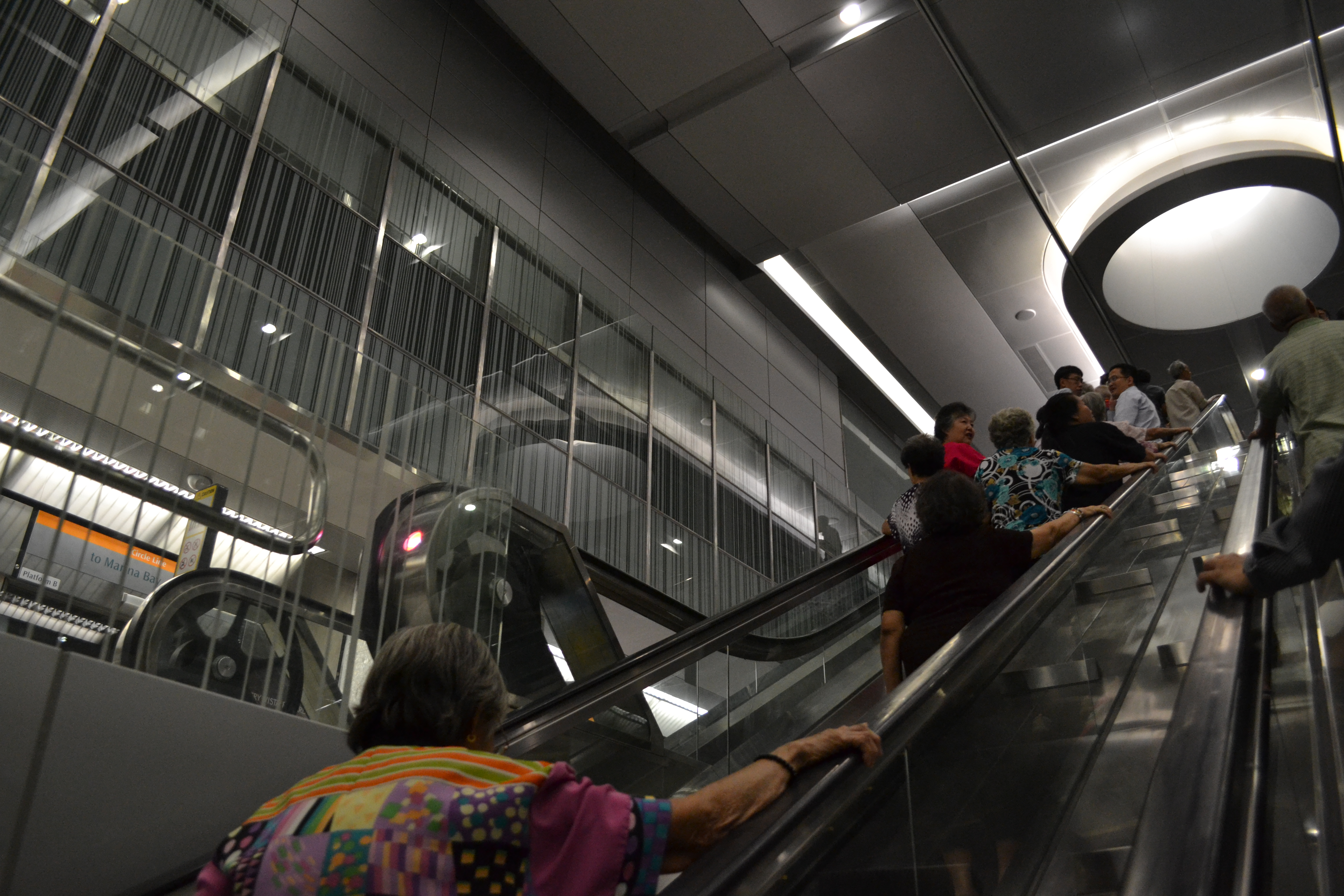 Bayfront's station interior